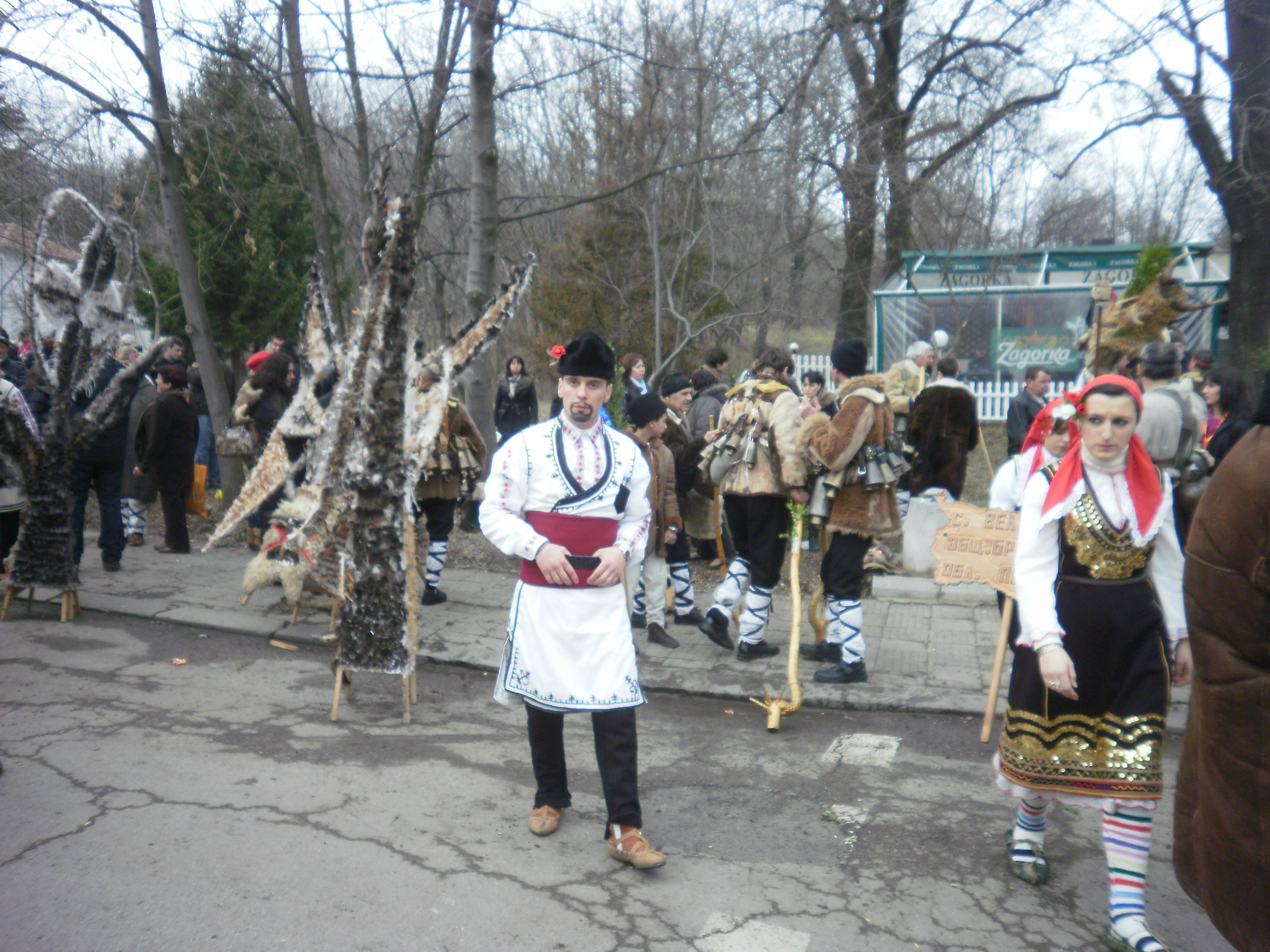 XXII International festival of masquerade games "Surva", Pernik, Bulgaria, 2013.